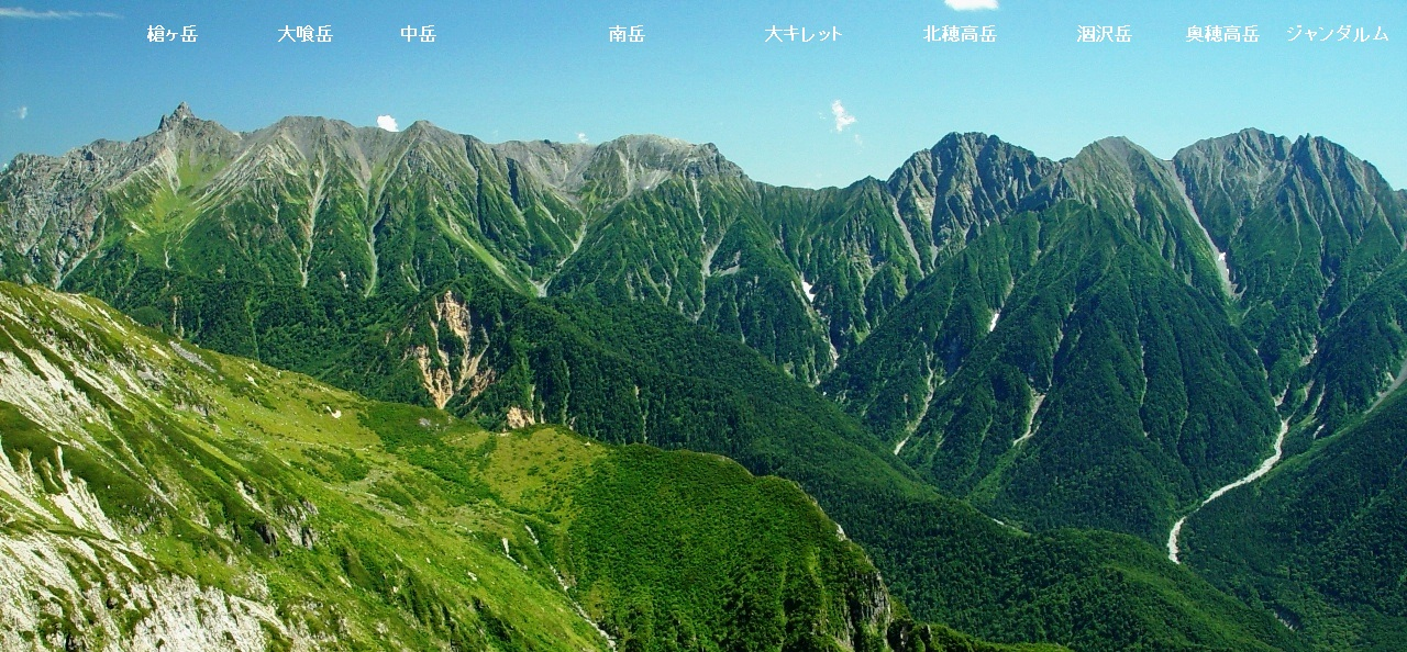 Mount Yari and Mount Hotaka seen from Mount Kasa in Hida Mountains, Japan.